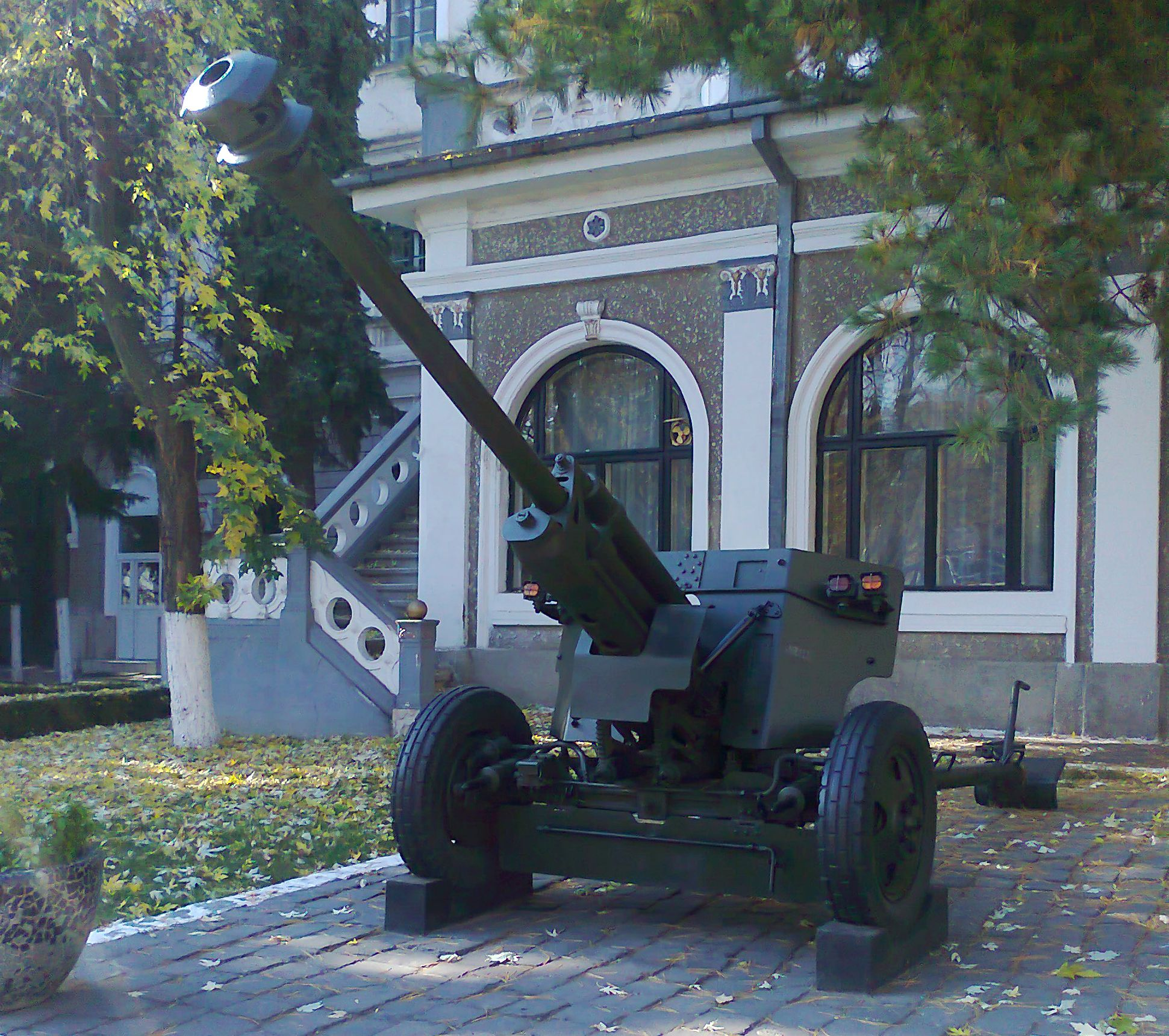 75 mm Reșița Model 1943 anti-tank cannon on display in Timișoara.